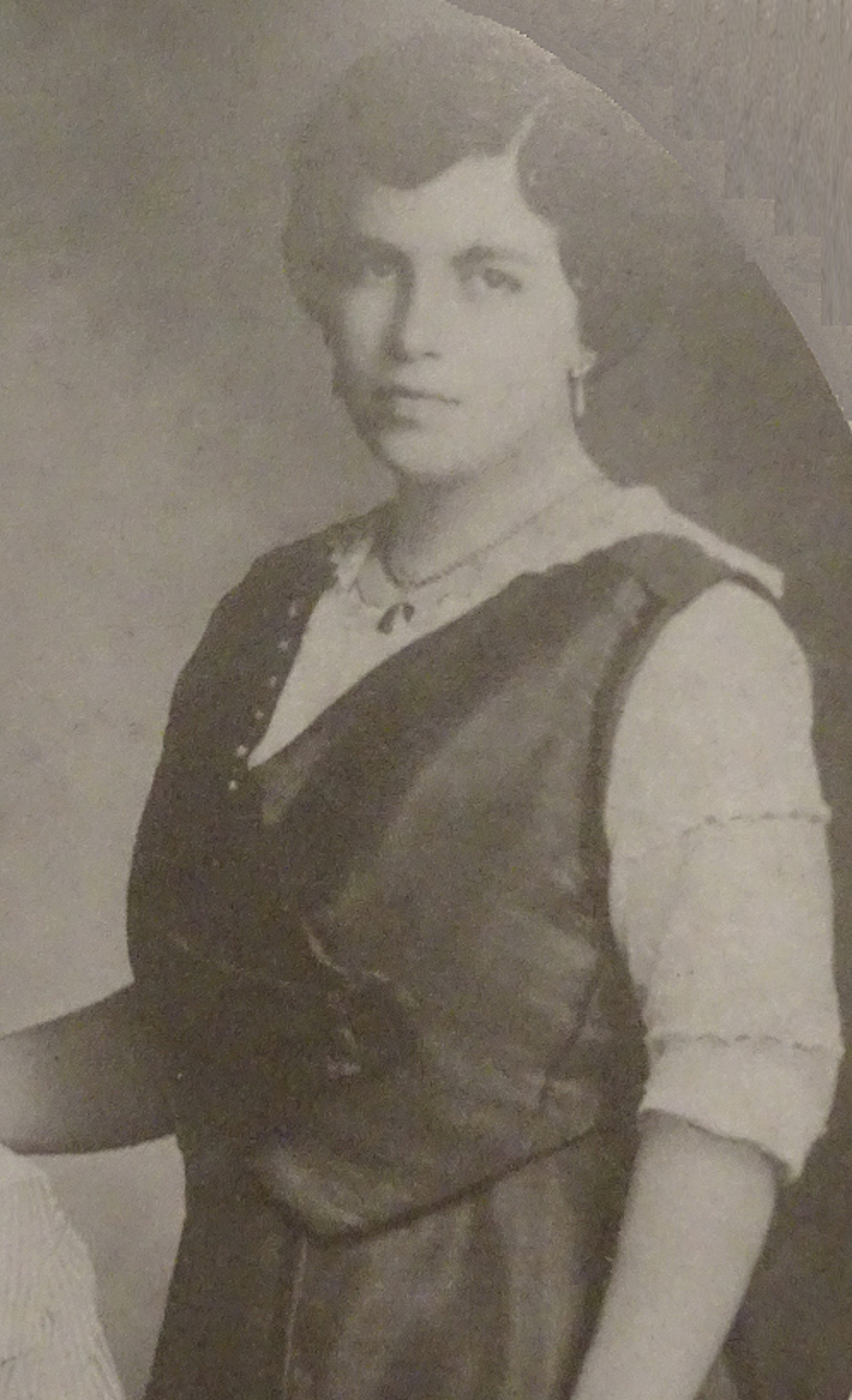 Lolita Tizol, Educadora de Ponce, Puerto Rico, cerca 1920 (DSC00465D)